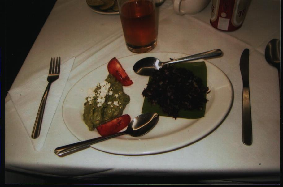 Grasshopper dish, Oaxaca